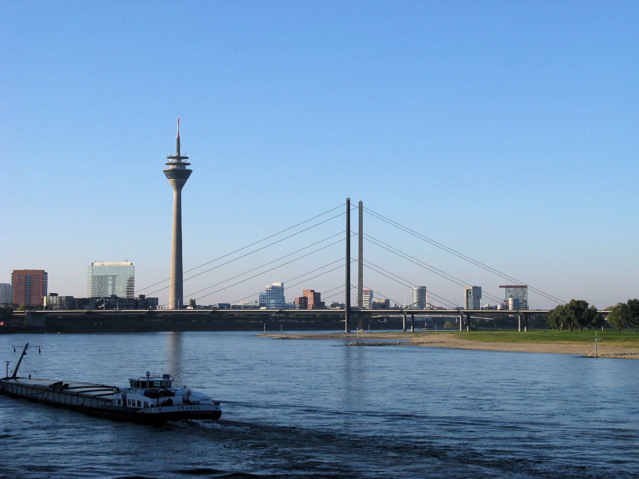 Düsseldorf, Germany